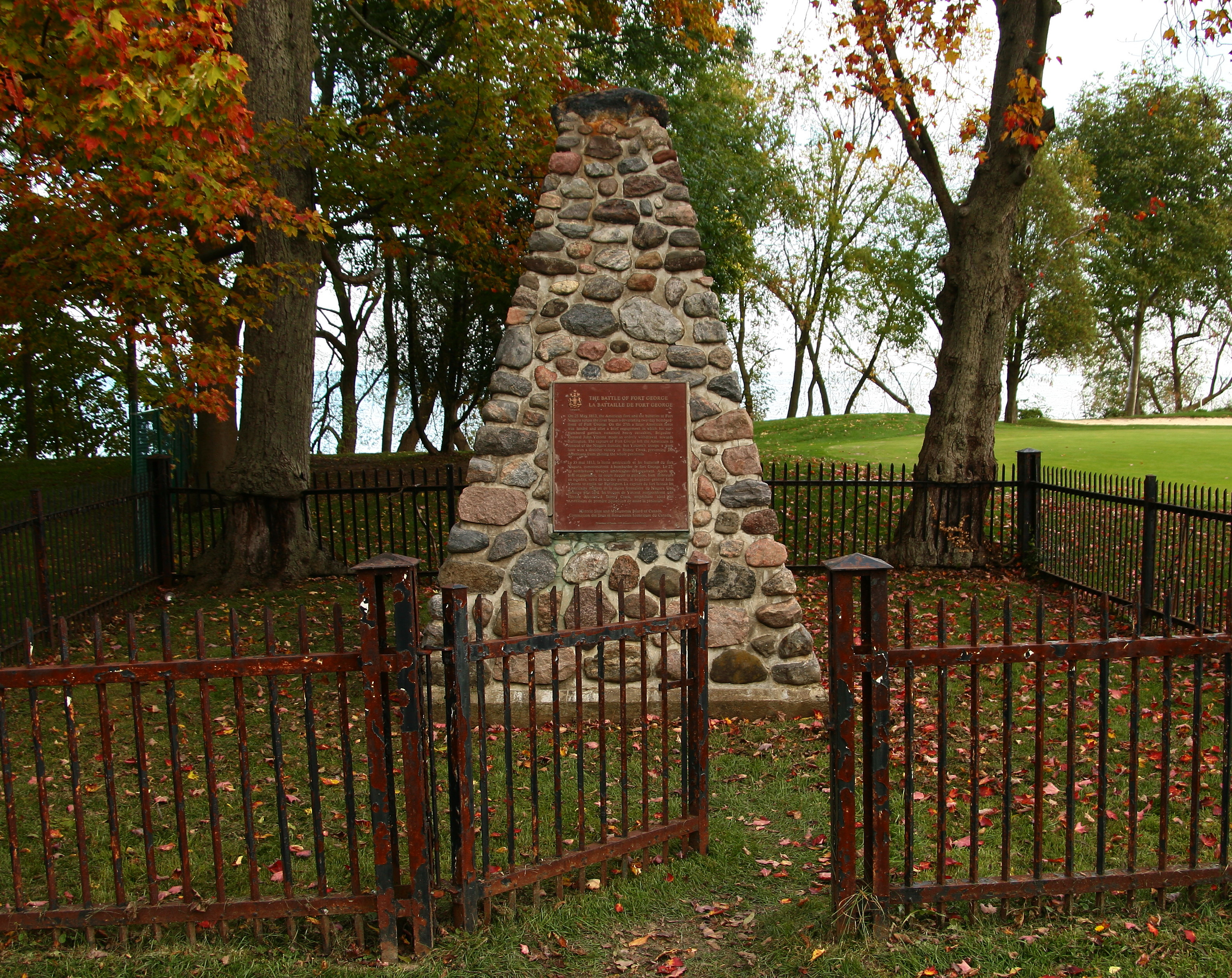 This photo is of a cultural heritage site in Canada, number 15905